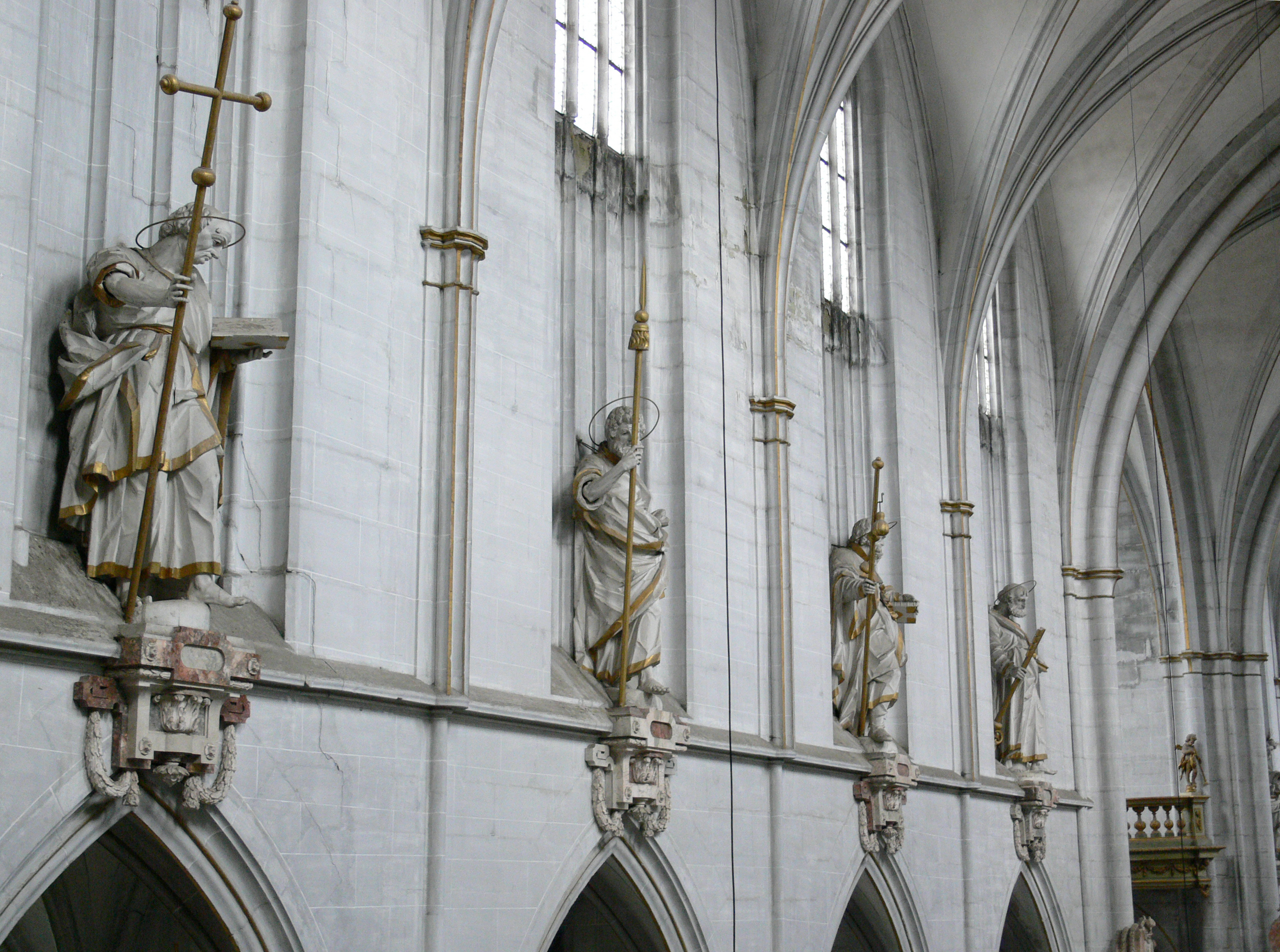 Description: Apostelfiguren im Mittelschiff Source: User:Saberhagen Location: Salemer Münster, Salem (Baden), Germany Source: own photograph by uploader